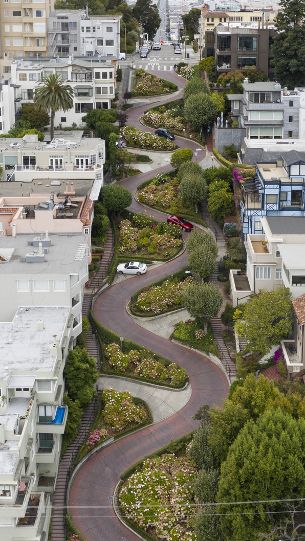 Lombard Street in 2020 by Christopher Michel